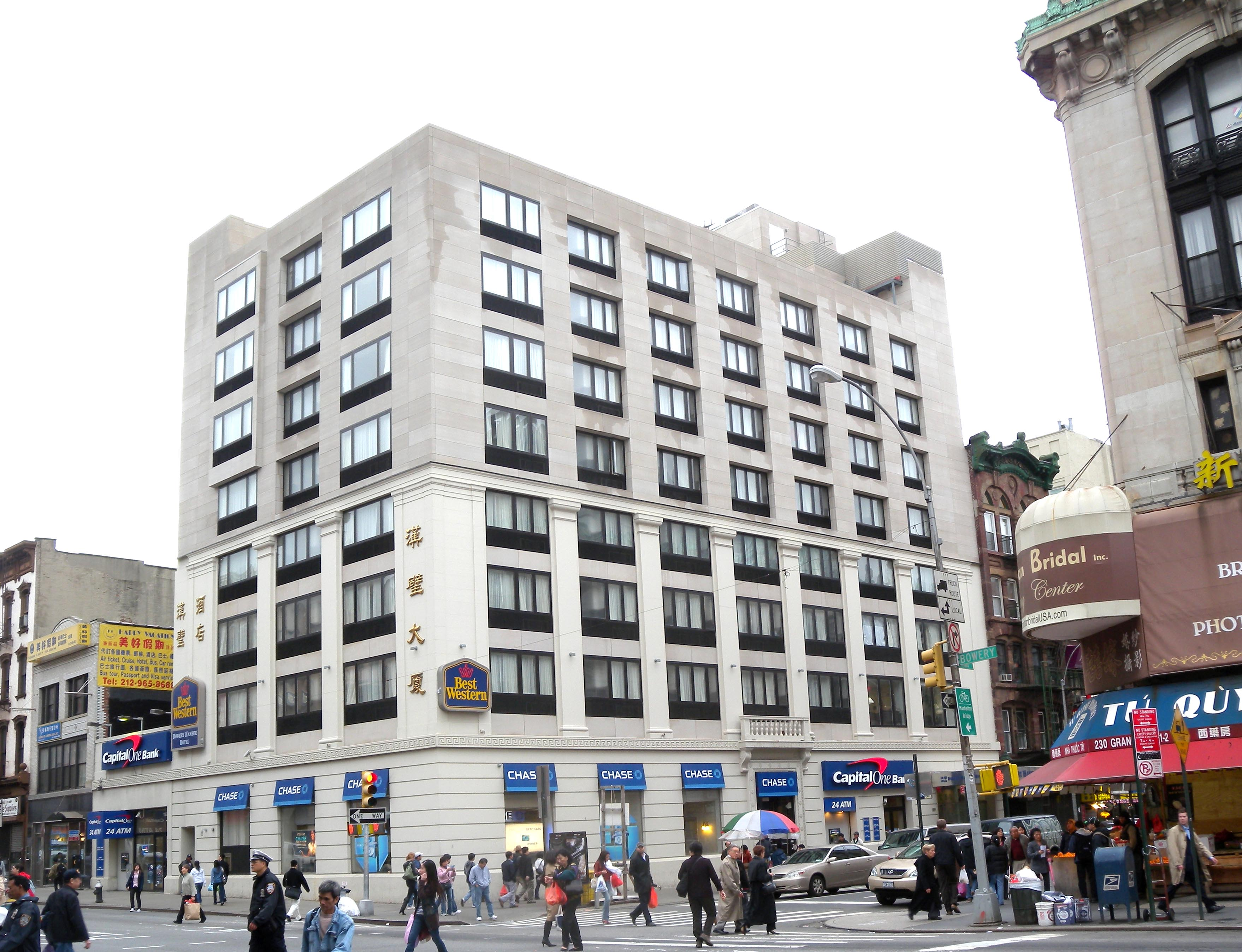 Best Western Bowery Hanbee Hotel (C: 潢璧酒店 Huángbì Jiǔdiàn) - Looking southwest across Grand Street and Bowery at Best Western Hotel on a cloudy afternoon.